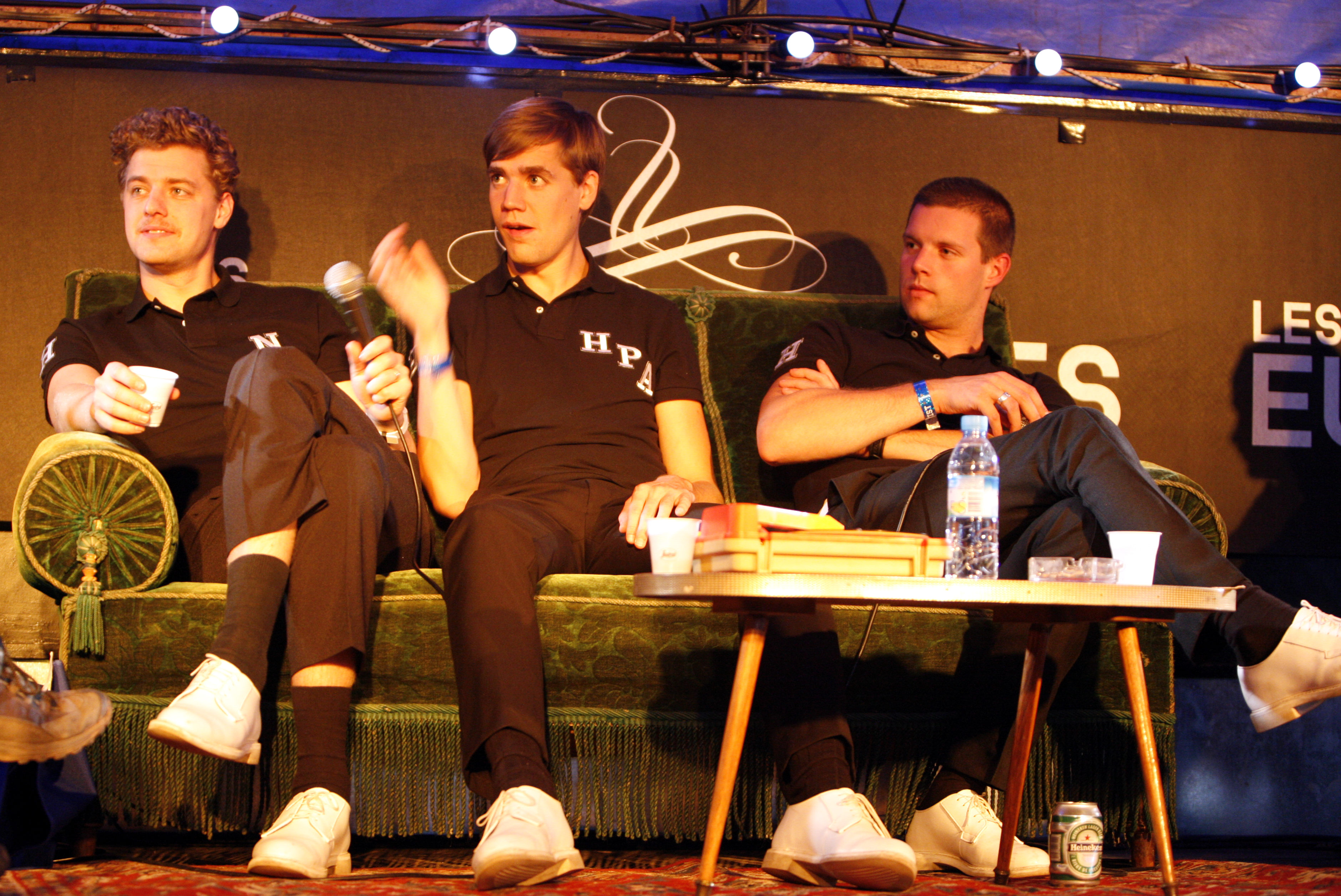 The Hives at the Eurockéennes of 2007